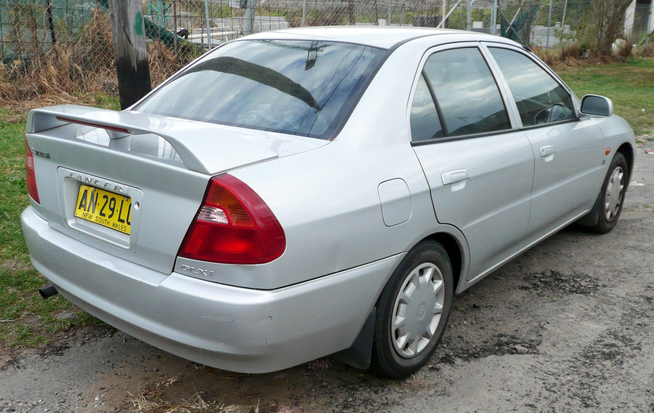 2001 Mitsubishi Lancer (CE2) GLXi sedan. Photographed in Sutherland, New South Wales, Australia.